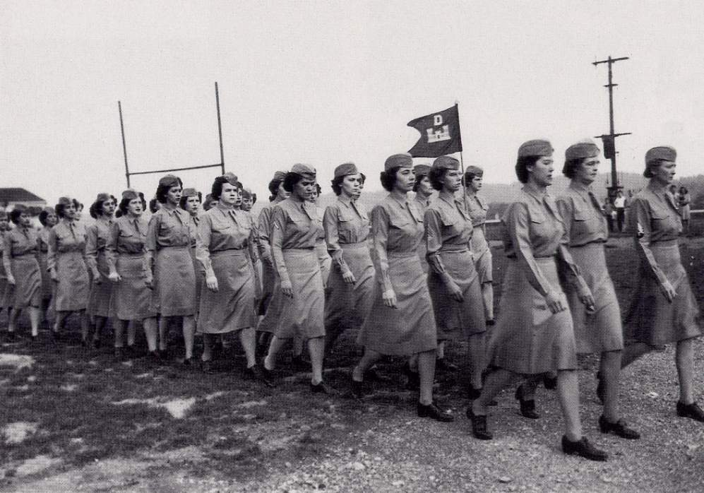 A WAC detachment marching at Oak Ridge, Tennessee